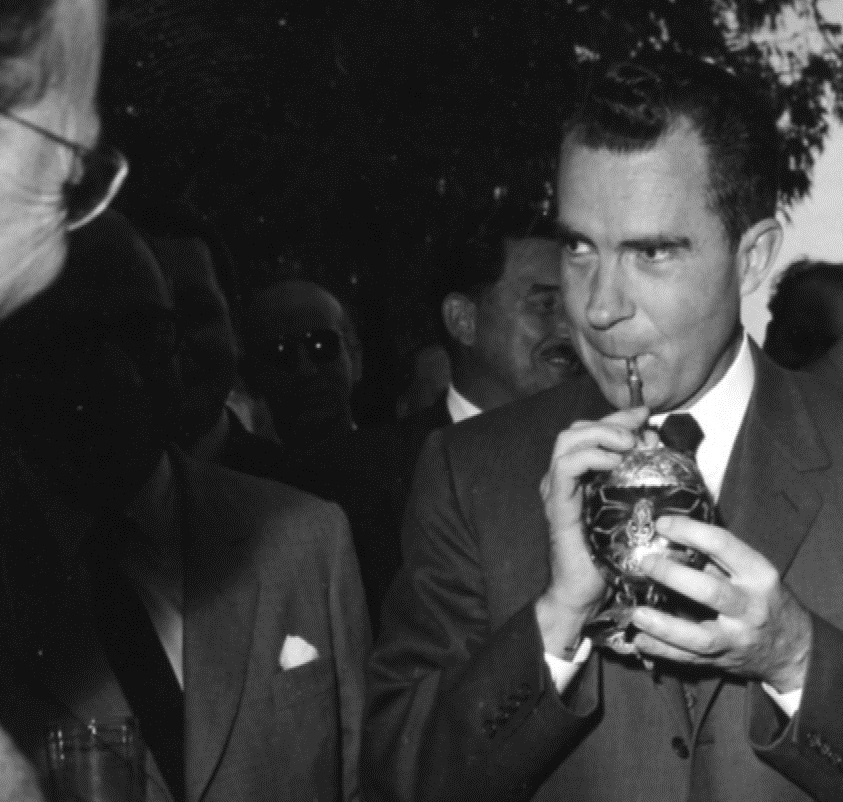 Vice President Richard Nixon drinks yerba mate from a mate gourd at a barbeque luncheon held at the residence of Luis Batlle Berres in Montevideo, Uruguay 1958